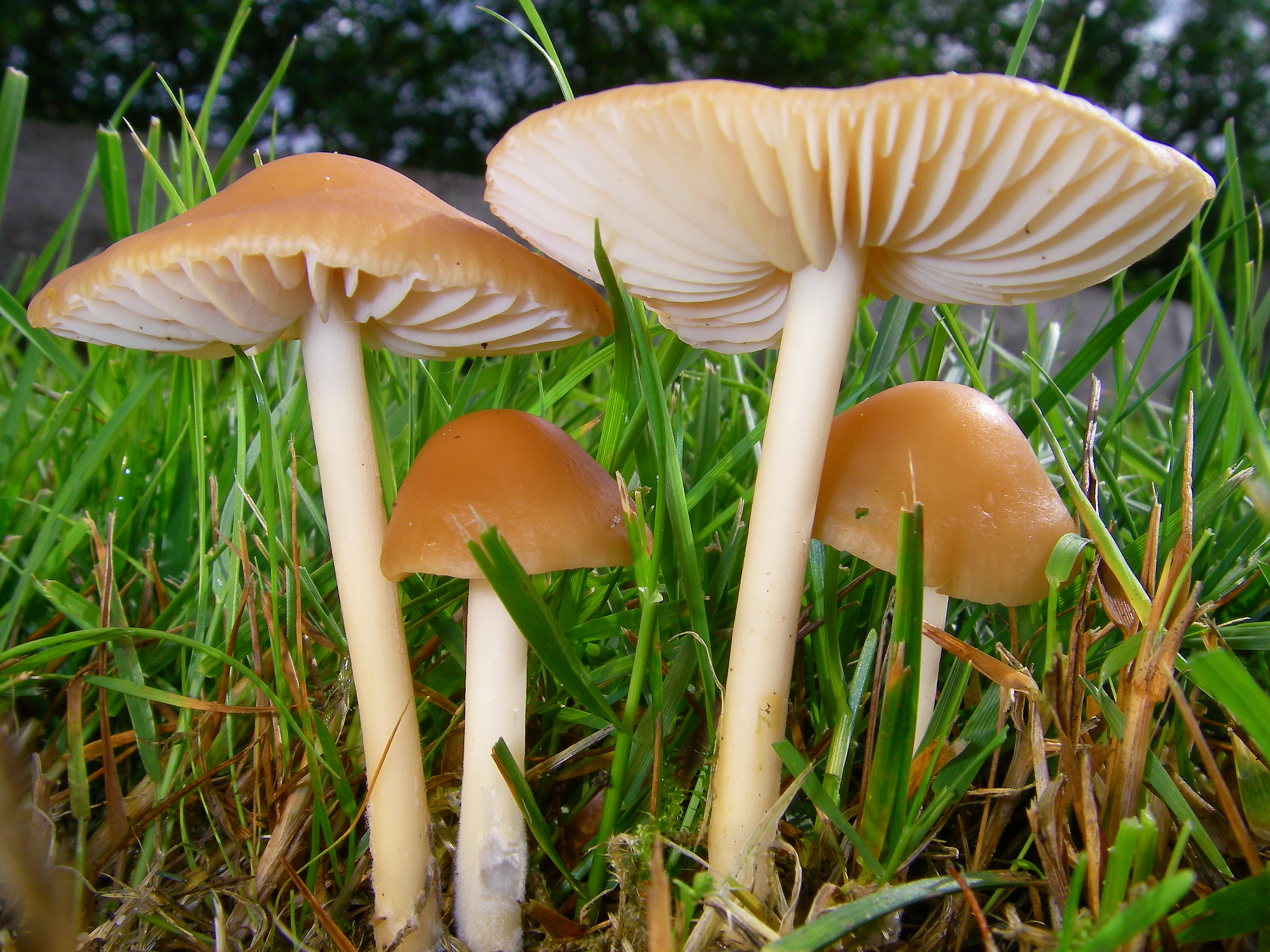 The making of this document was supported by the Community-Budget of Wikimedia Germany.